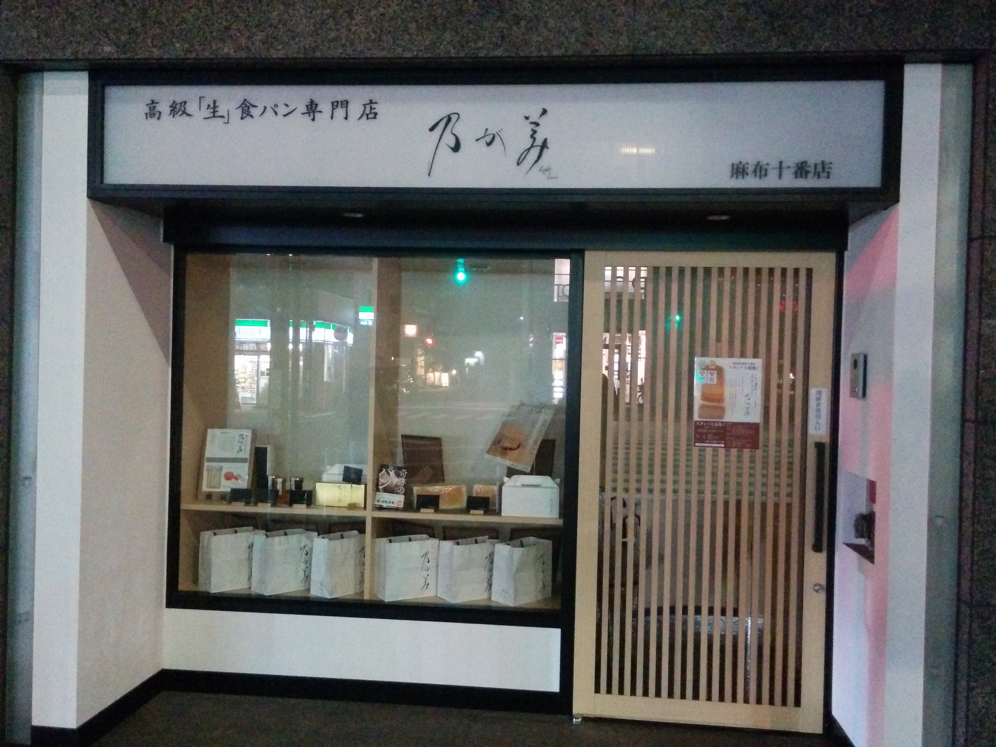 Fresh bread store Nogami Azabujuban in Minato-ku, Tokyo.